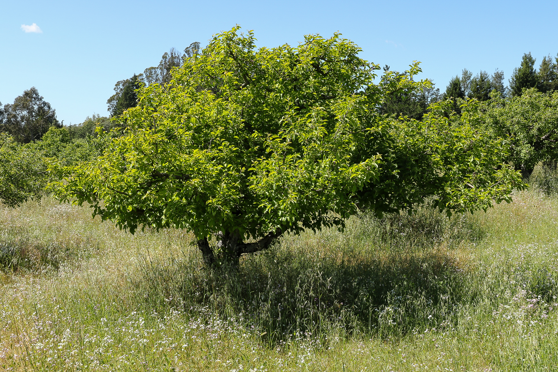 Apple orchard near Sebastopol, Sonoma County, California